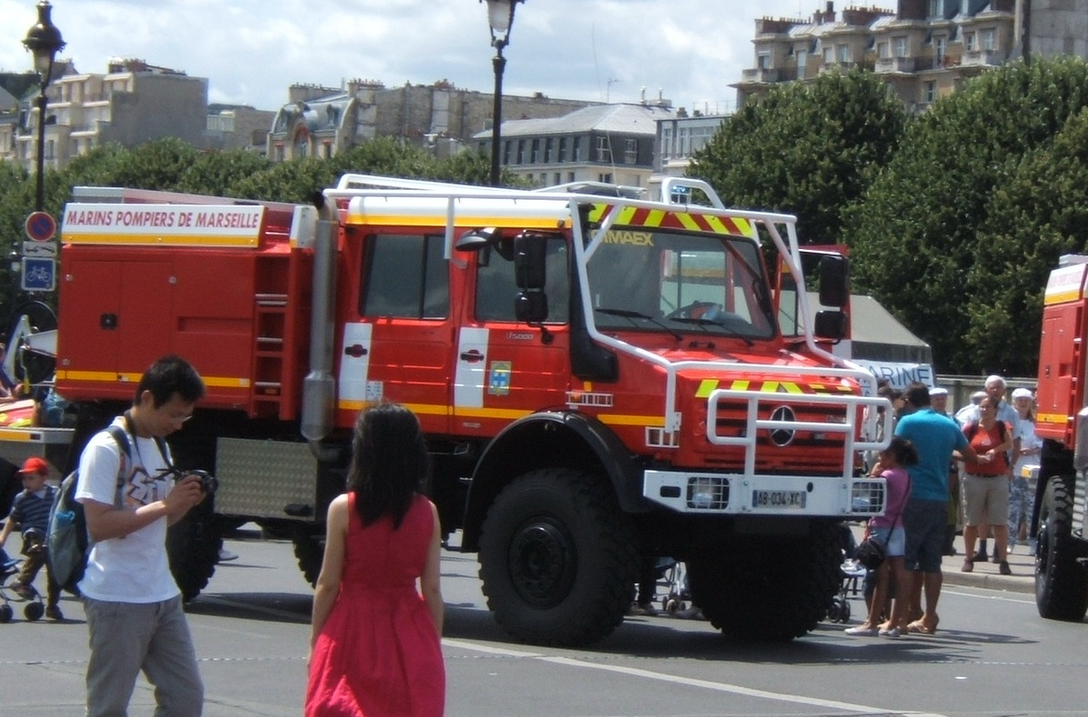 Seen here in Paris for Bastille Day 2008, this fire truck is used by Marseille Fire brigade.